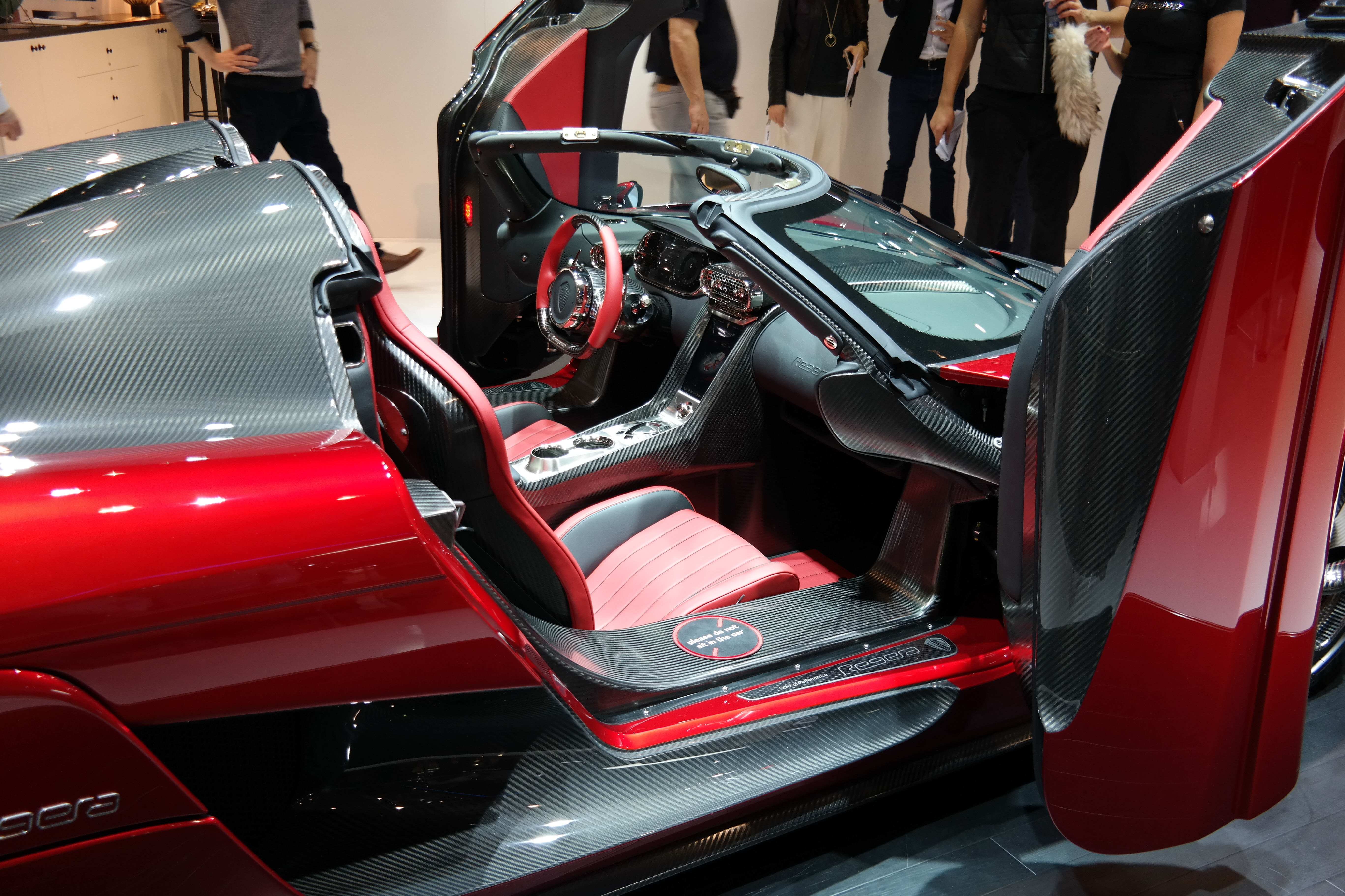 Geneva Motor Show 2017 (photo taken on the first press day)